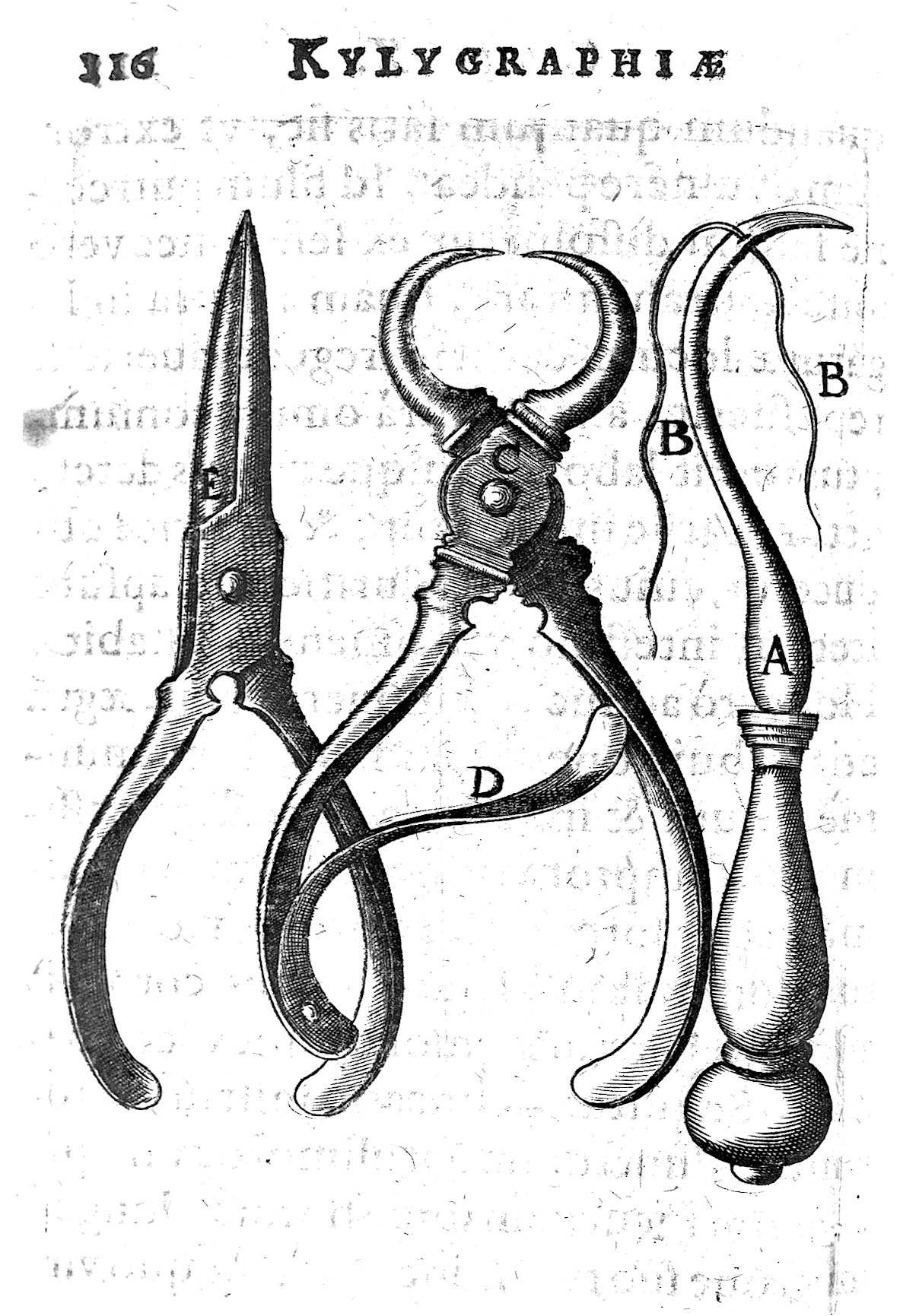 Forceps, etc for use in hernia surgery, 1631. Rare Books Keywords: medicine, instruments; medicine, treatment; surgery, 17th century; Malachias Geiger